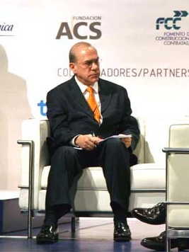 José Ángel Gurria, Secretary General of the OECD.